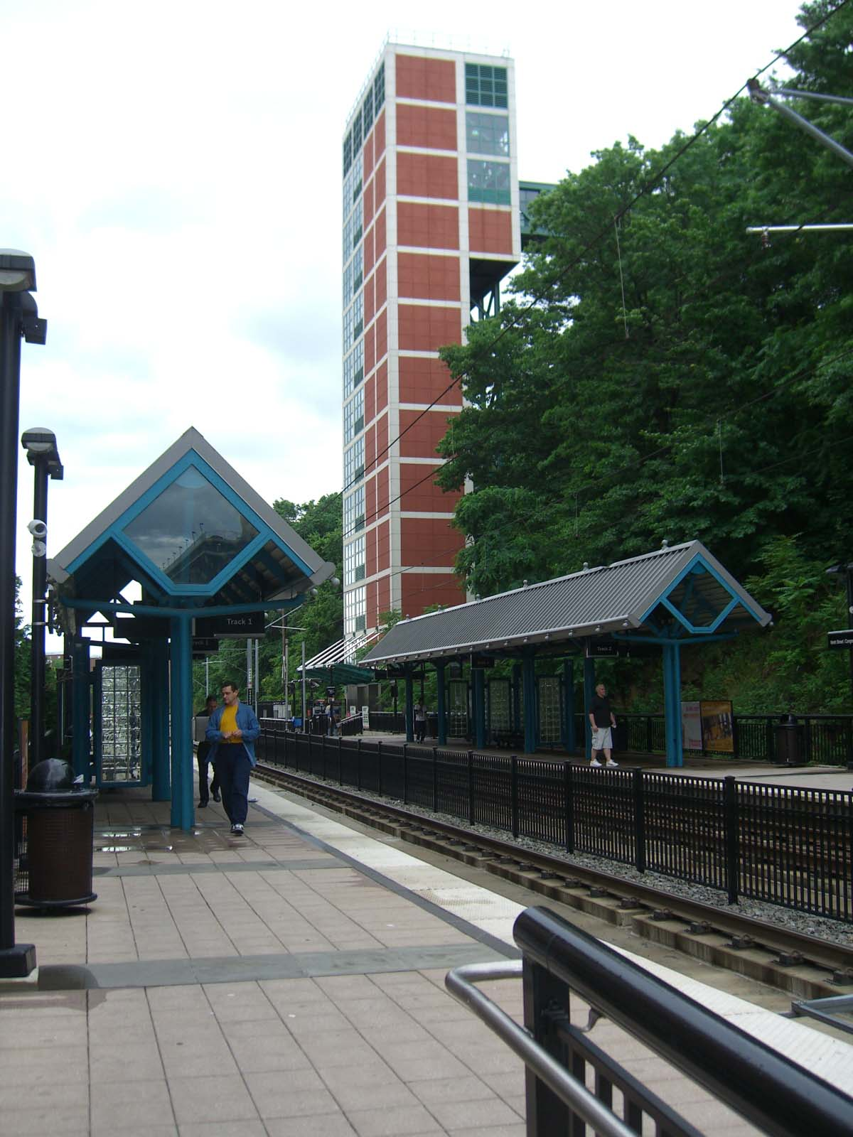 The 9th Street Light Rail station of New Jersey's Hudson-Bergen Light Rail in Hoboken, New Jersey. The tall structure is the elevator leading from the platform to Congress Street in Jersey City. Taken June 21, 2009 by Nightscream.